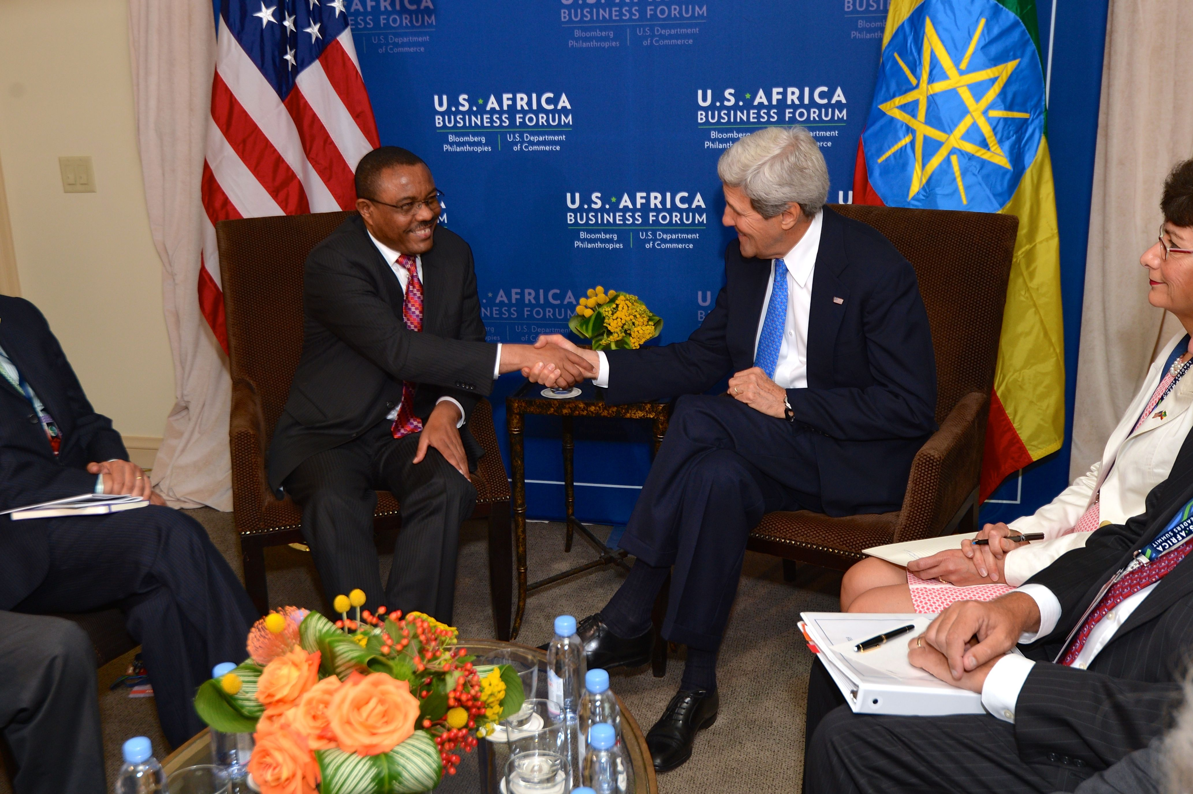 U.S. Secretary of State John Kerry meets with Ethiopian Prime Minister Hailemariam Desalegn on the sidelines of the U.S.-Africa Business Forum in Washington, D.C., on August 5, 2014. Leaders from across the African continent are in the nation's capital for a three-day U.S.-Africa Leaders Summit, the largest event any U.S. President has held with African heads of state and government.